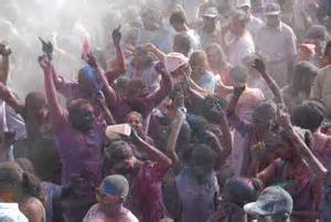 phagwah scenes